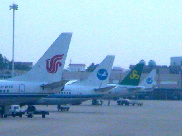 Aircraft at Xiamen Gaoqi International Airport.